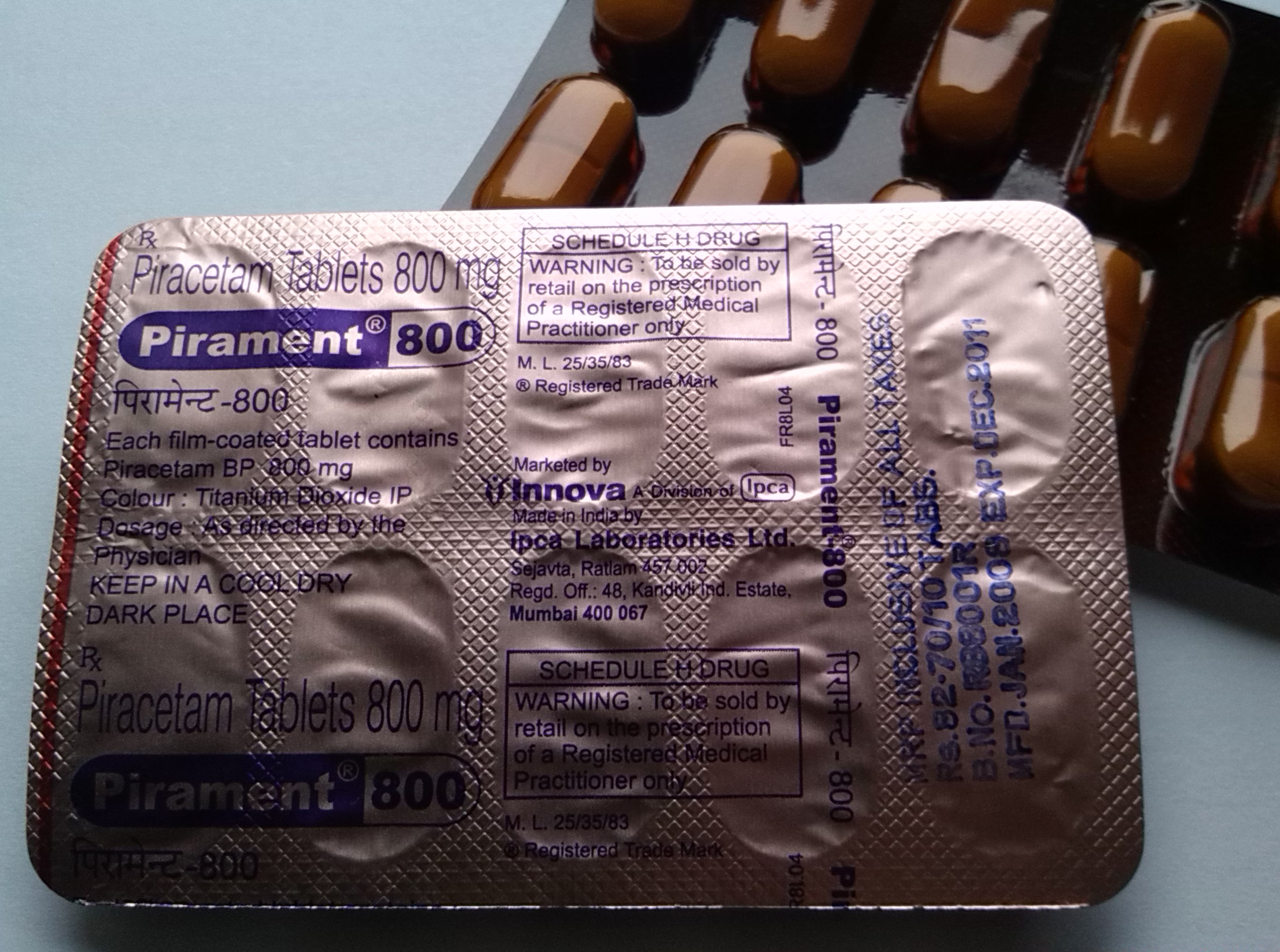 Piracetam 800mg tablets.